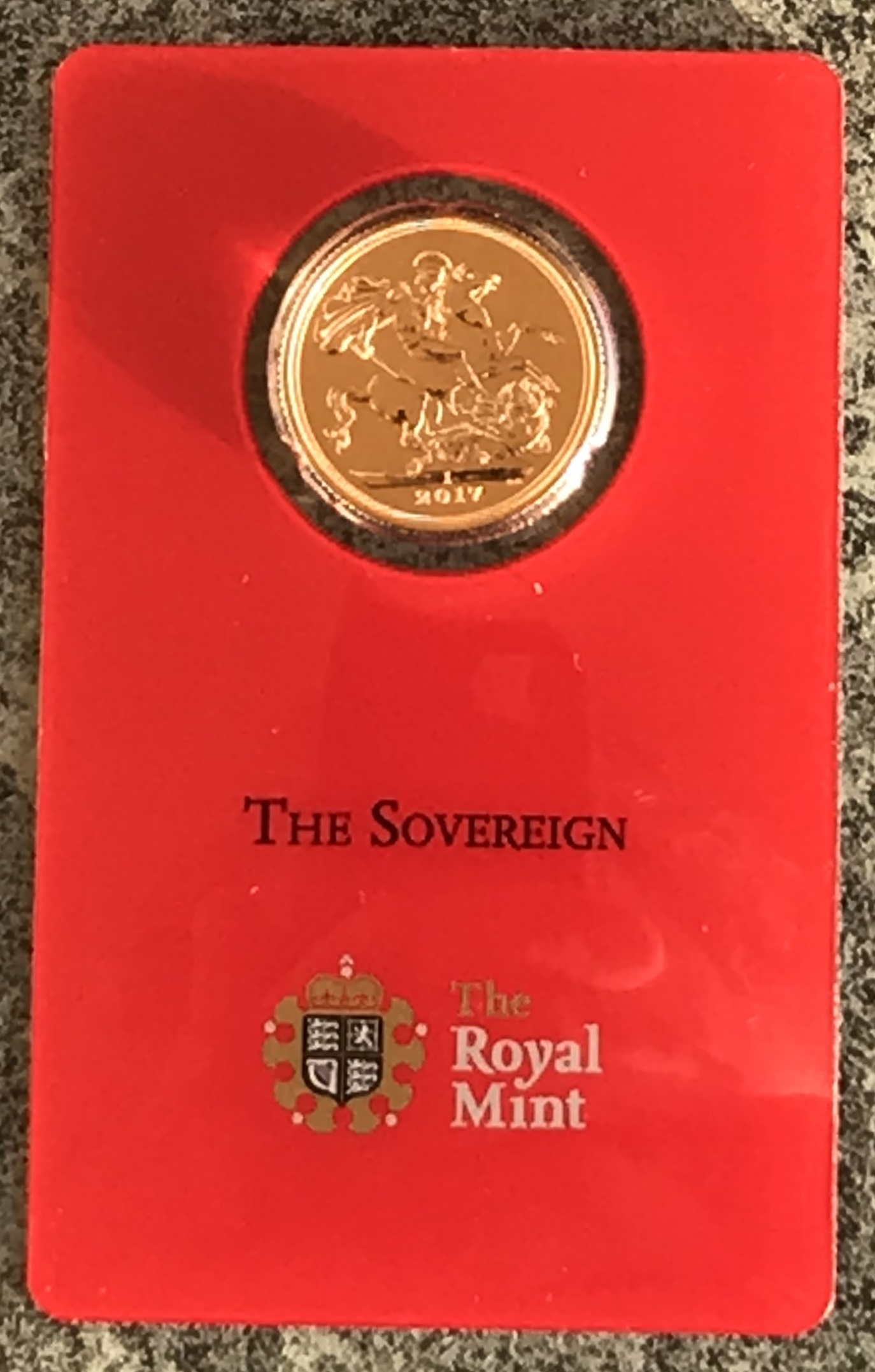 2017-I sovereign in card of issue (reverse shown)